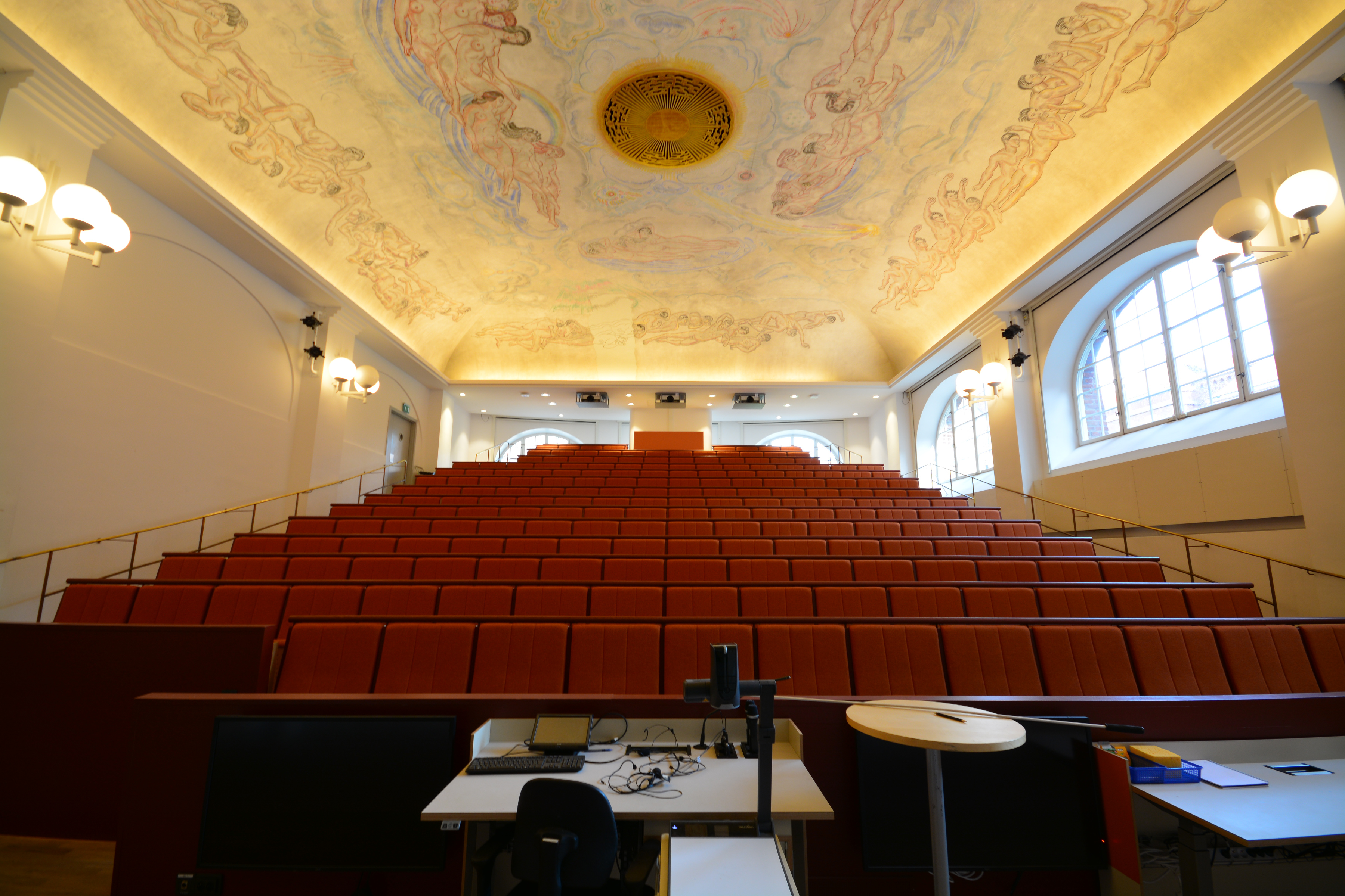 Lecture hall E1 (Törneman hall) at Royal Institute of Technology, Stockholm, Sweden.